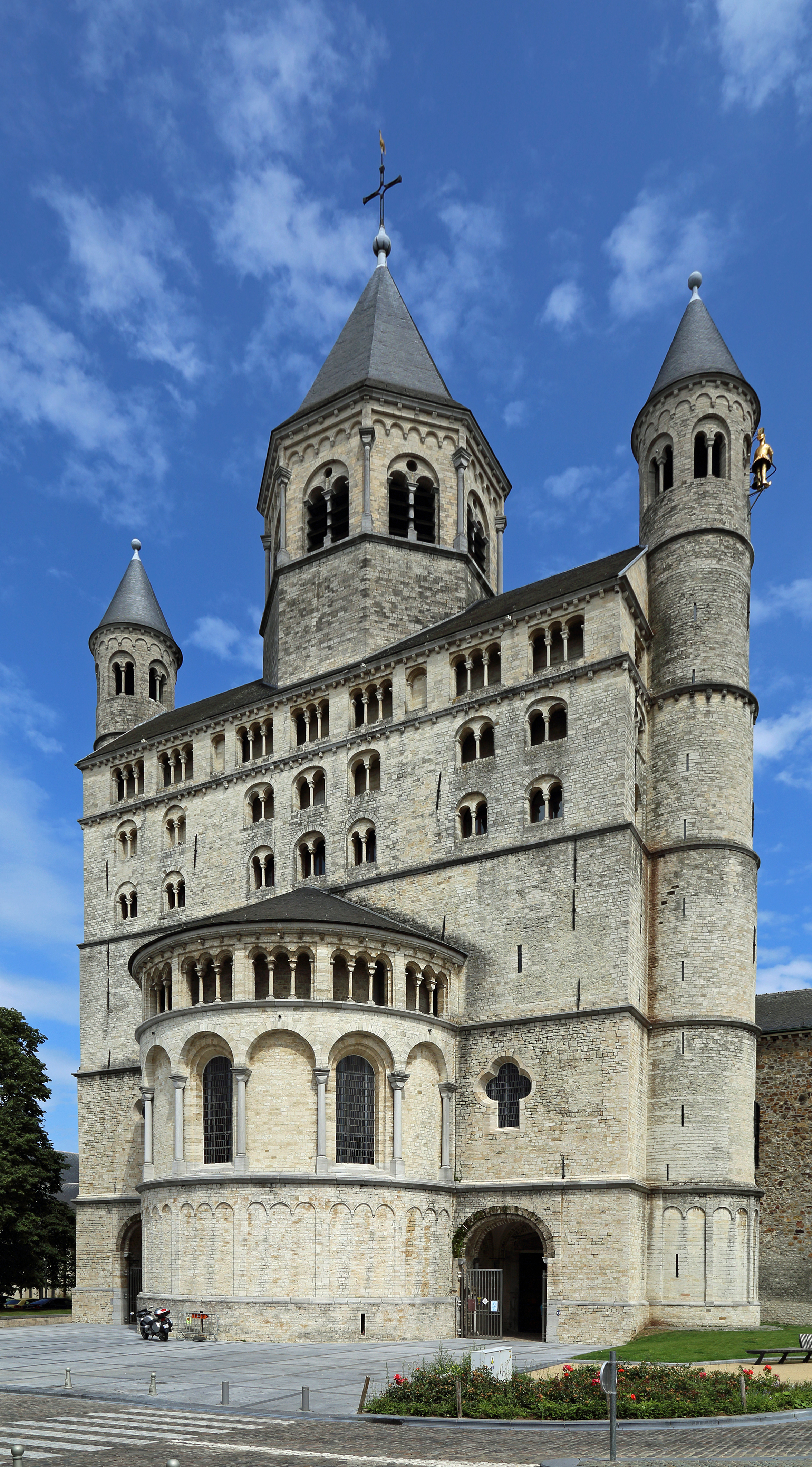 Nivelles (Belgium): Sainte-Gertrude church